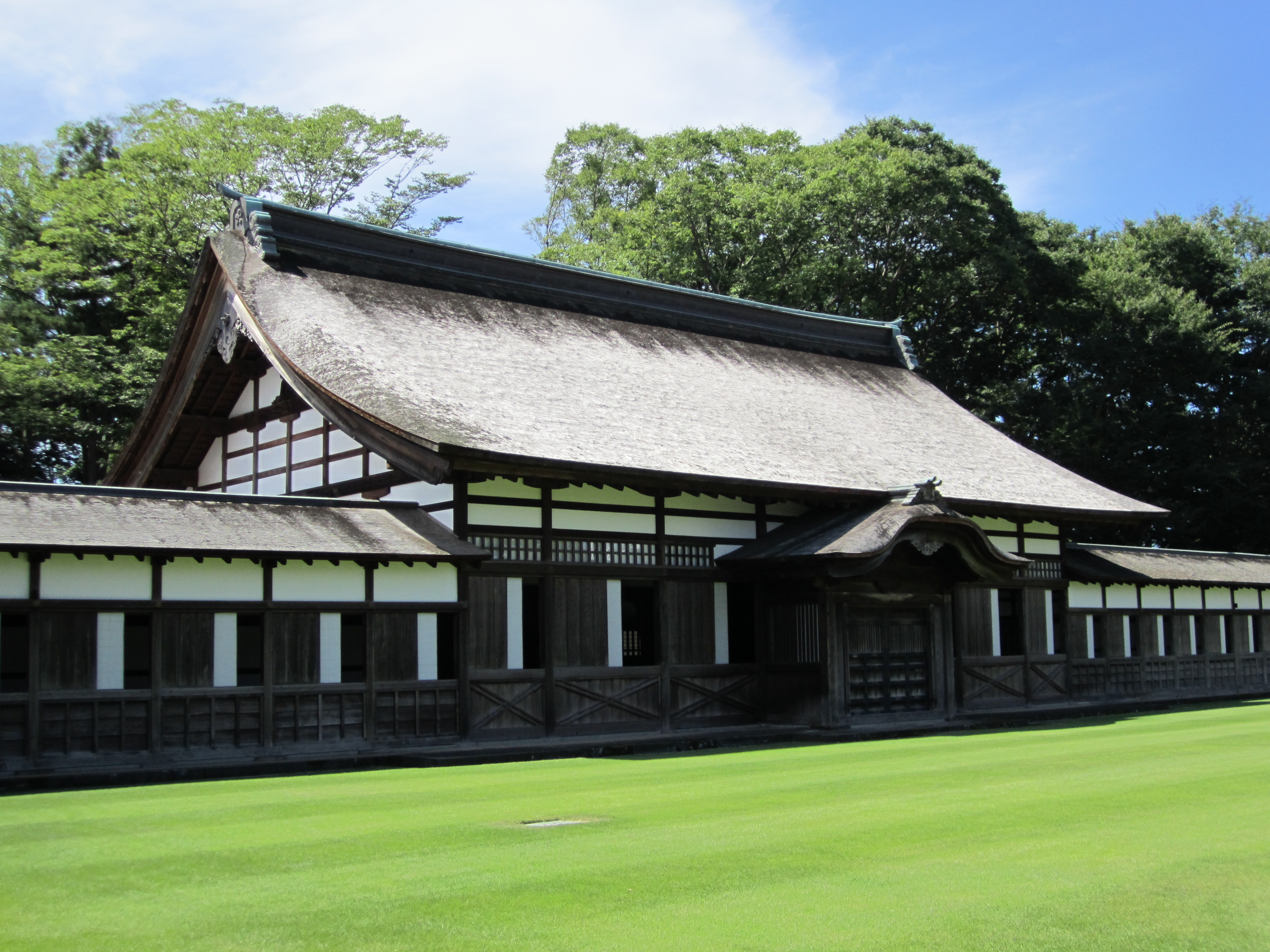 Zendo (Sodo), Zuiryuji Temple